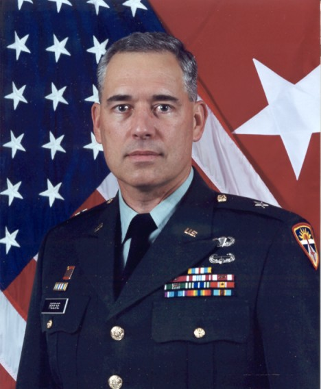 Brigadier General Robert J. Reese is the 26th Commander of White Sands Missile Range.